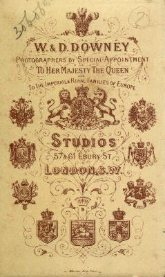 Back of Carte-de-Visite advertising studio of "W. & D. Downey"